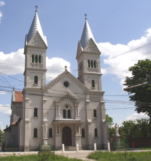 Herz Jesu, Sântana, Arad